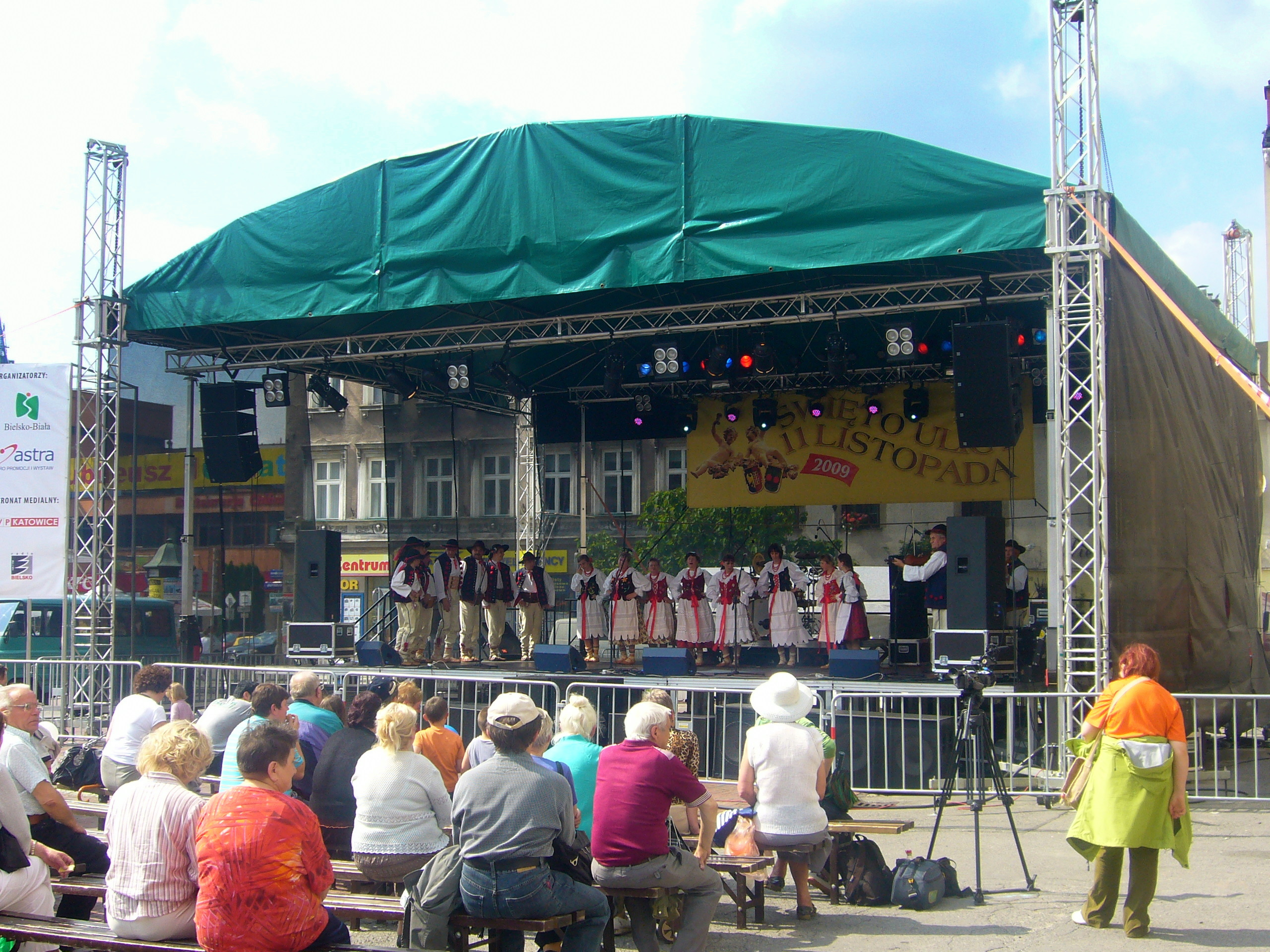 Święto Ulicy 11 Listopada 2009 (11 Listopada Street Festival 2009) in Bielsko-Biała, Poland. Bandstand on Wojska Polskiego Square.